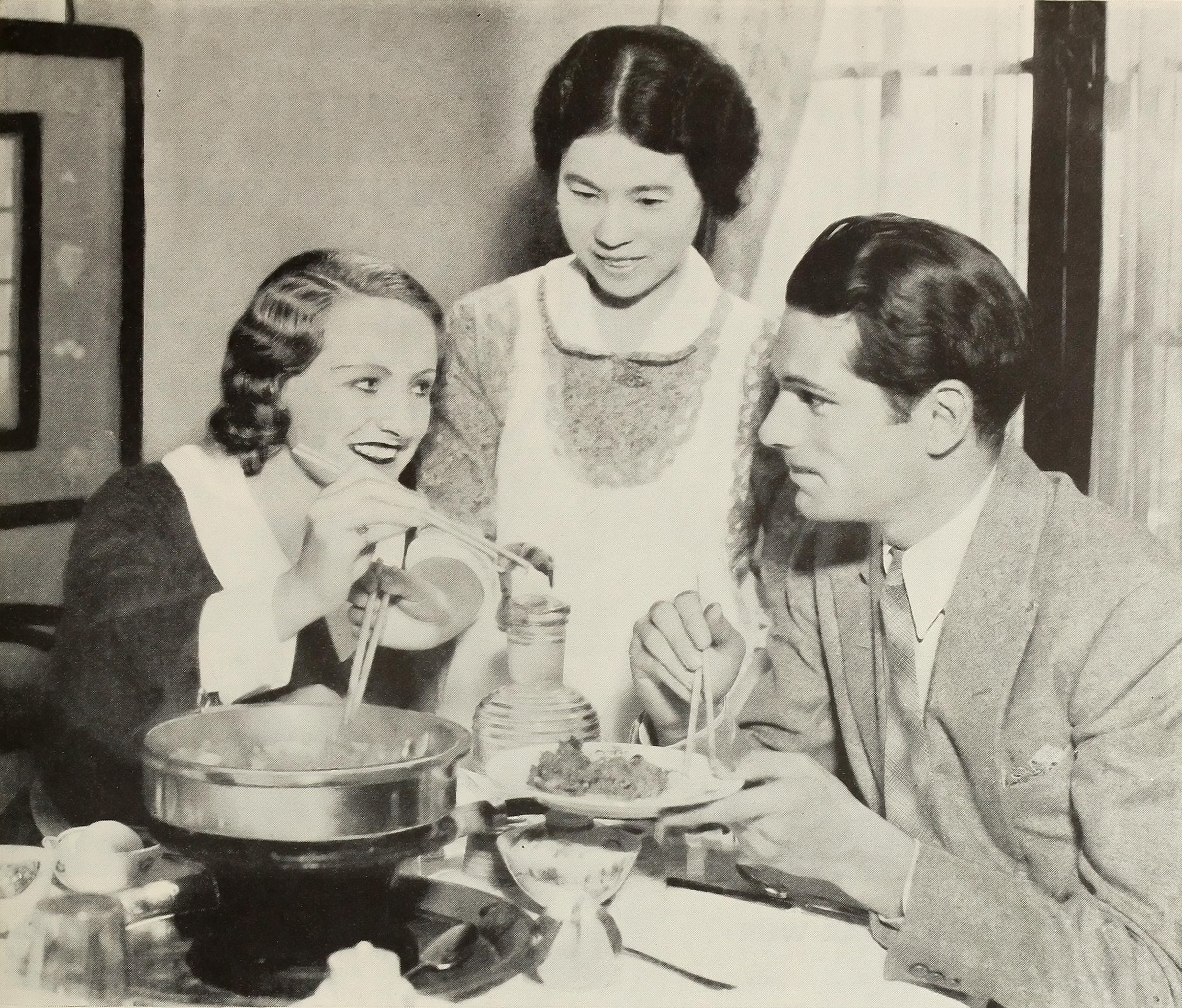 Photo of Mr. and Mrs. Laurence Olivier (Jill Esmond) at a Japanese restaurant in Los Angeles.